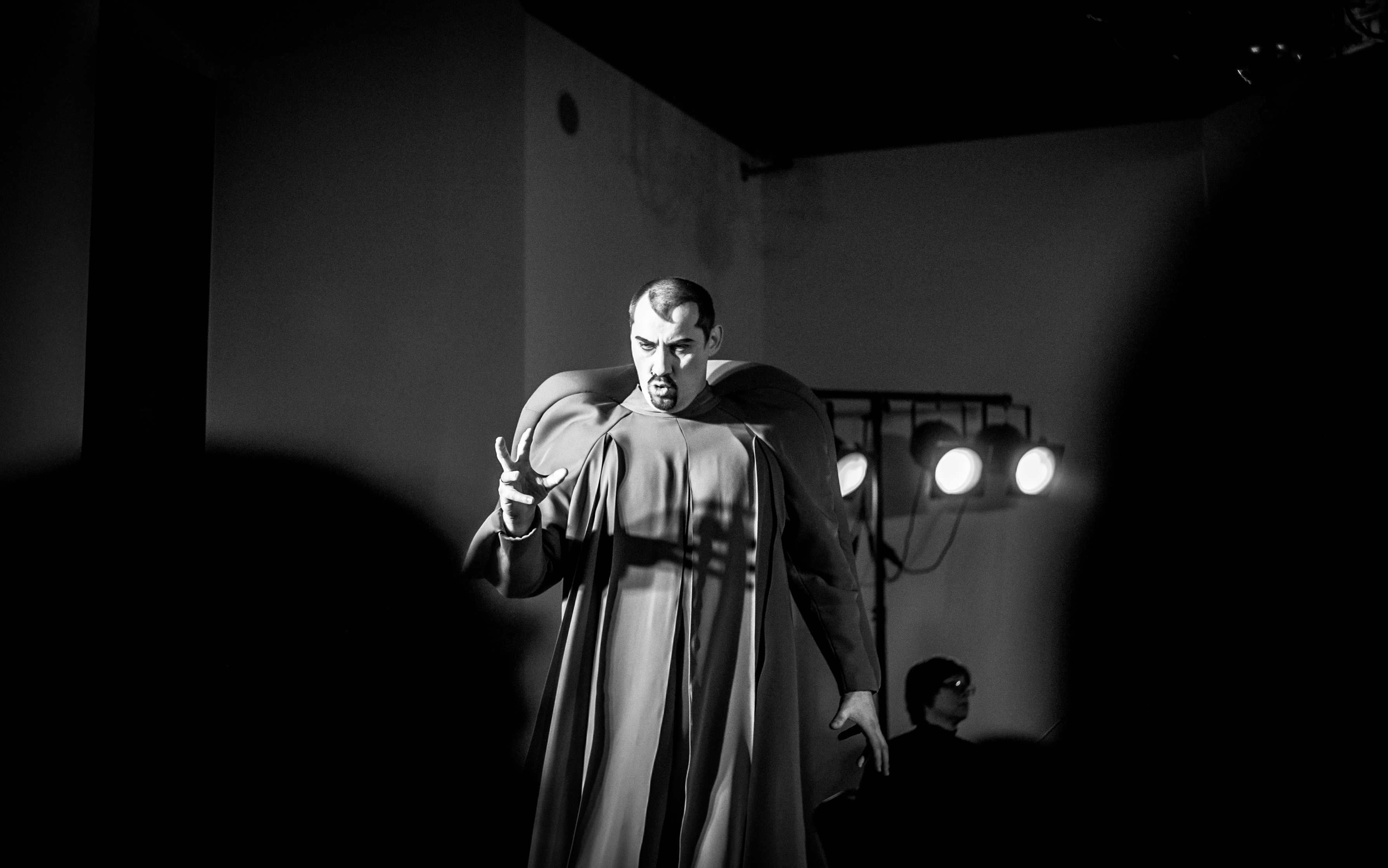 Algirdas Bagdonavičius performing in the opera pastiche